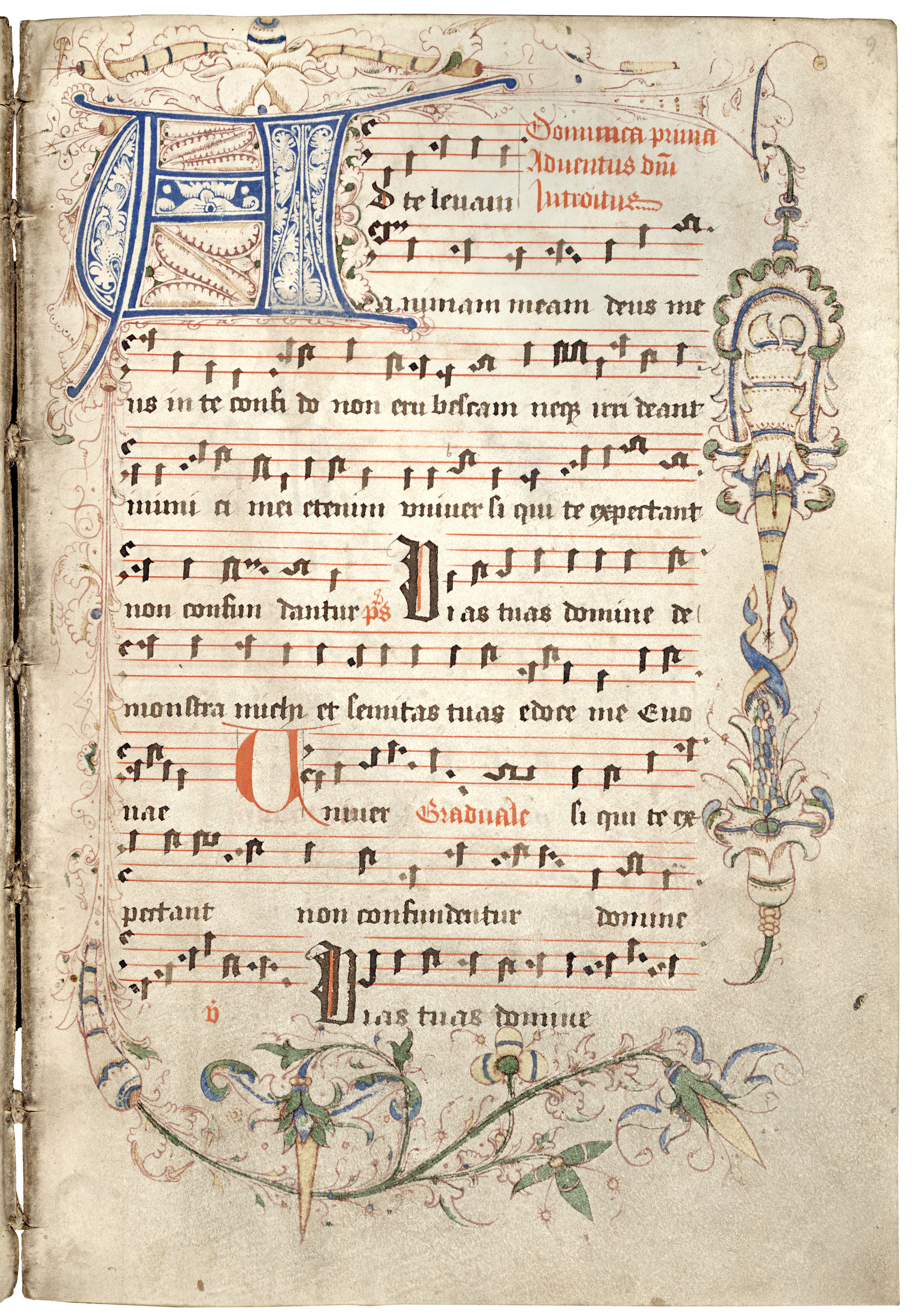 Gradual, usus Liège, with music notation, 1530. According to a note inside the front coverplate, it was written in the Dominican Monastery St. Paul in Maastricht, for St. Alban's Church in Vlijtingen. Now in the Koninklijke Bibliotheek, The Hague, the Netherlands (KB ms. 71 A 3).